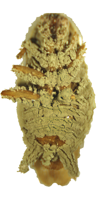 Metarhizium anisopliae fungus, capable of killing more than 200 insect species including cockroaches (pictured)